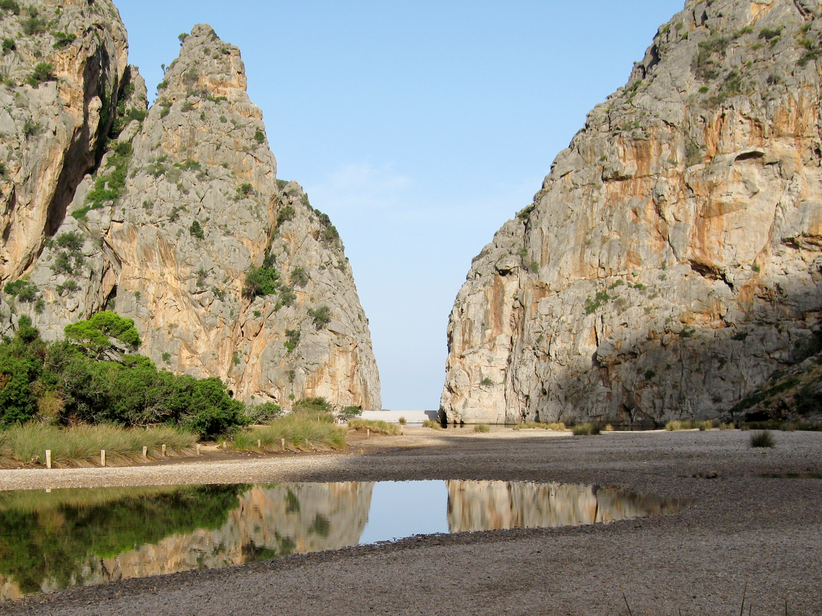 Estuary mouth of the Torrent de Pareis, Municipality of Escorca, Majorca, Spain